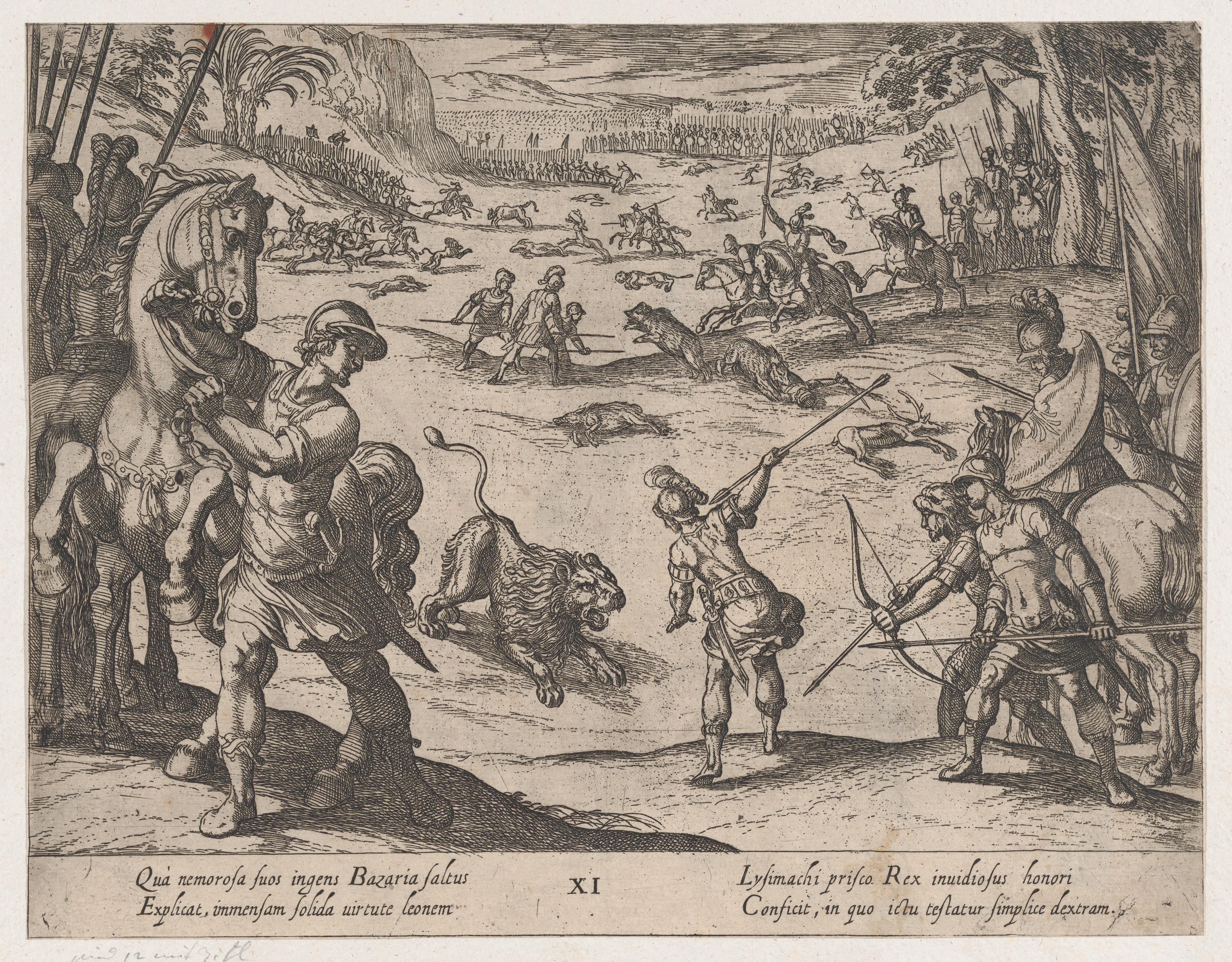 Print; Prints